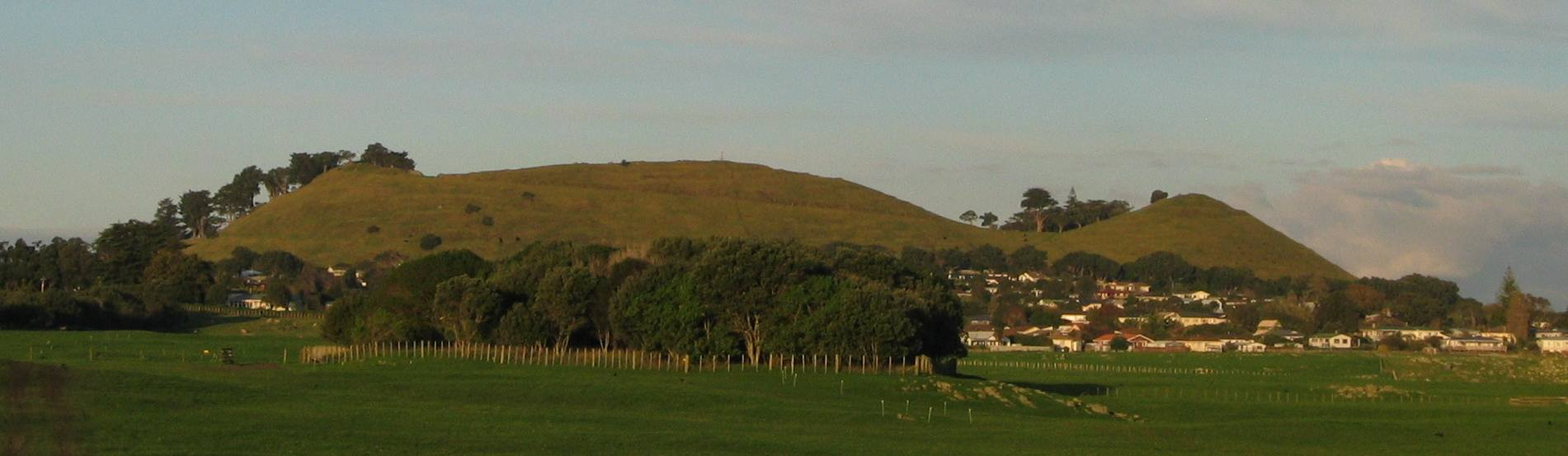 The volcanic cone of Mangere Mountain, Auckland, viewed from across the lava fields of Ambury Regional Park.